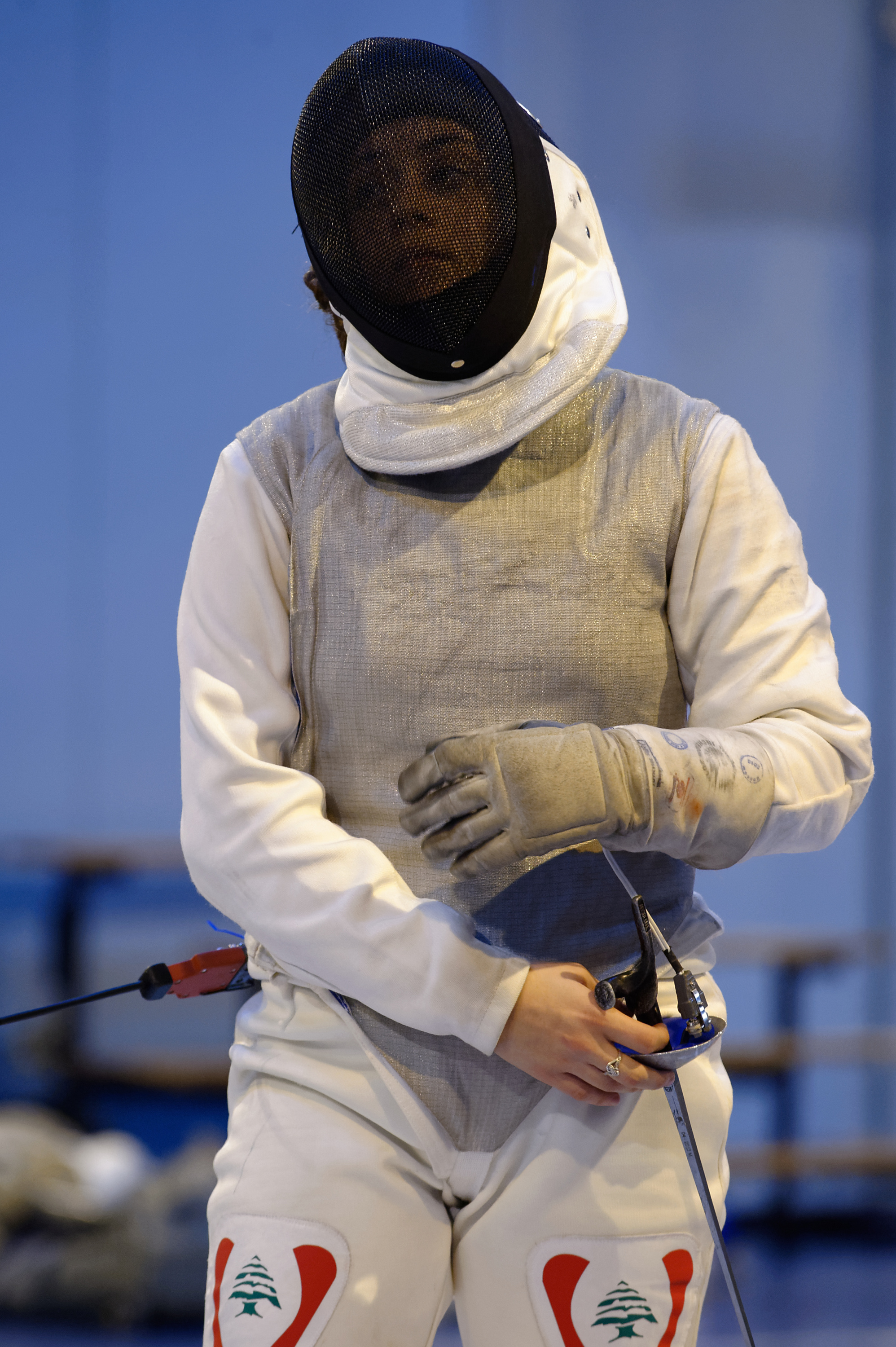 Lebanon's Mona Shaito at the pools stage of the 2015 Saint-Maur women's foil World Cup.